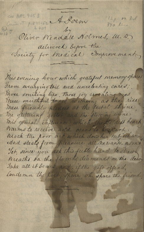 An unpublished poem by Oliver Wendell Holmes, Sr., likely written around 1839-1840, and read at one of the meeting of the Boston Society for Medical Improvement.